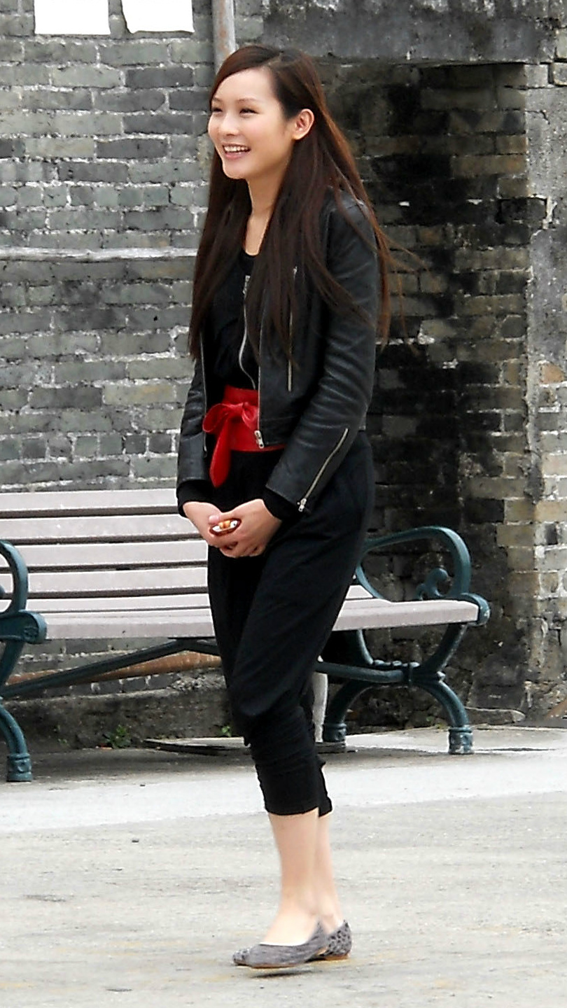 Ali Li